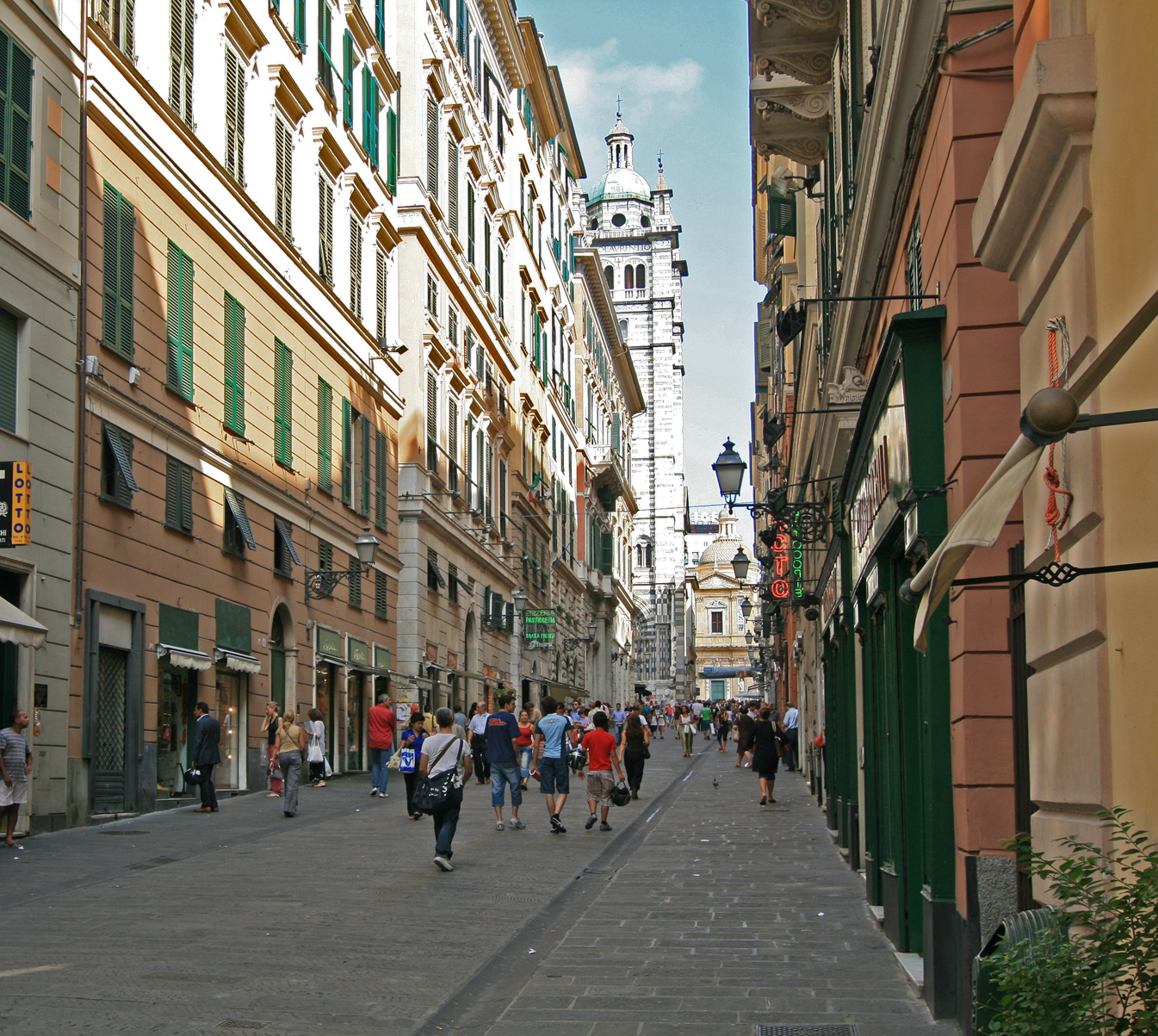 Via San Lorenzo, Genova, Italy.